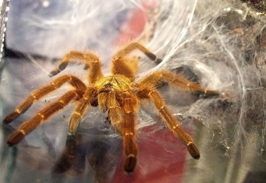 pterinochilus murinus, young, 10 months, body length 4cm